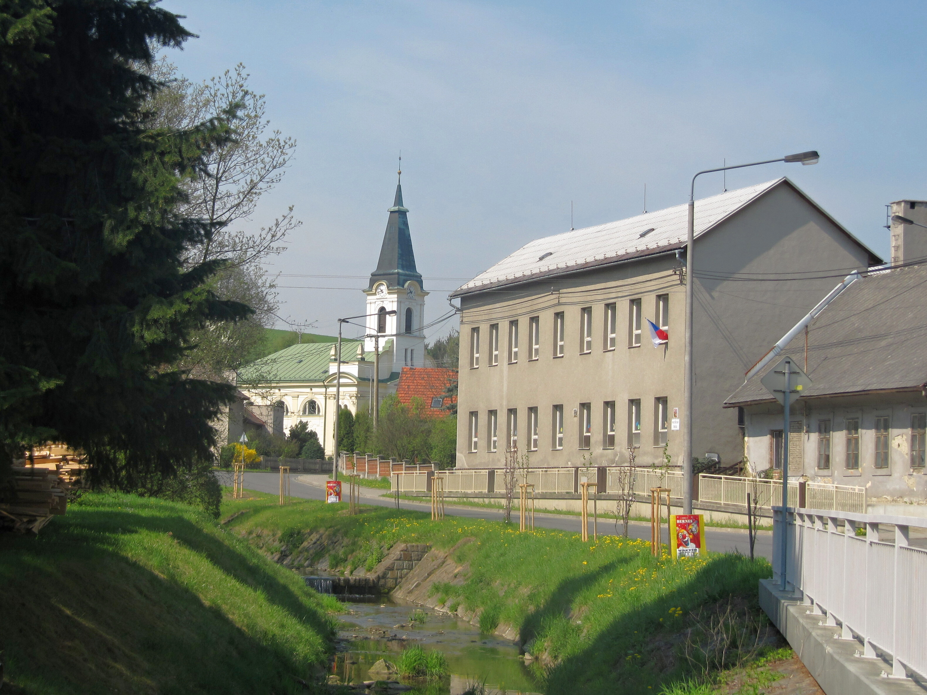 Liptál in Vsetín District, Czech Republic. Brook and evangelic church.